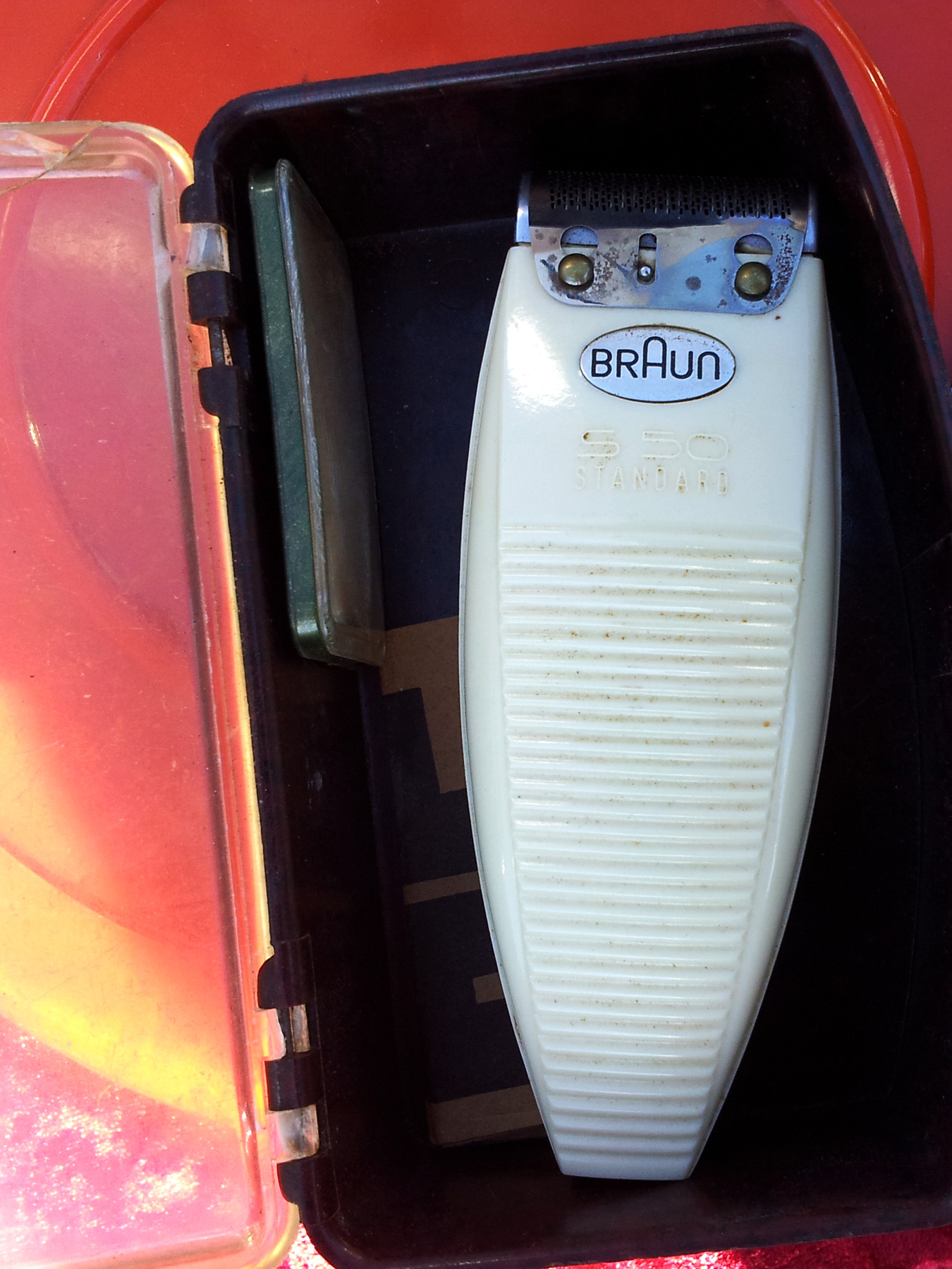 Braun S 50 electric shaver